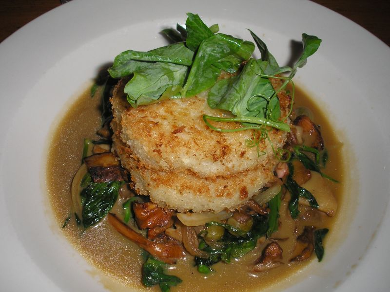 Risotto cakes, mascarpone, fava bean and mushroom ragout, pea vines